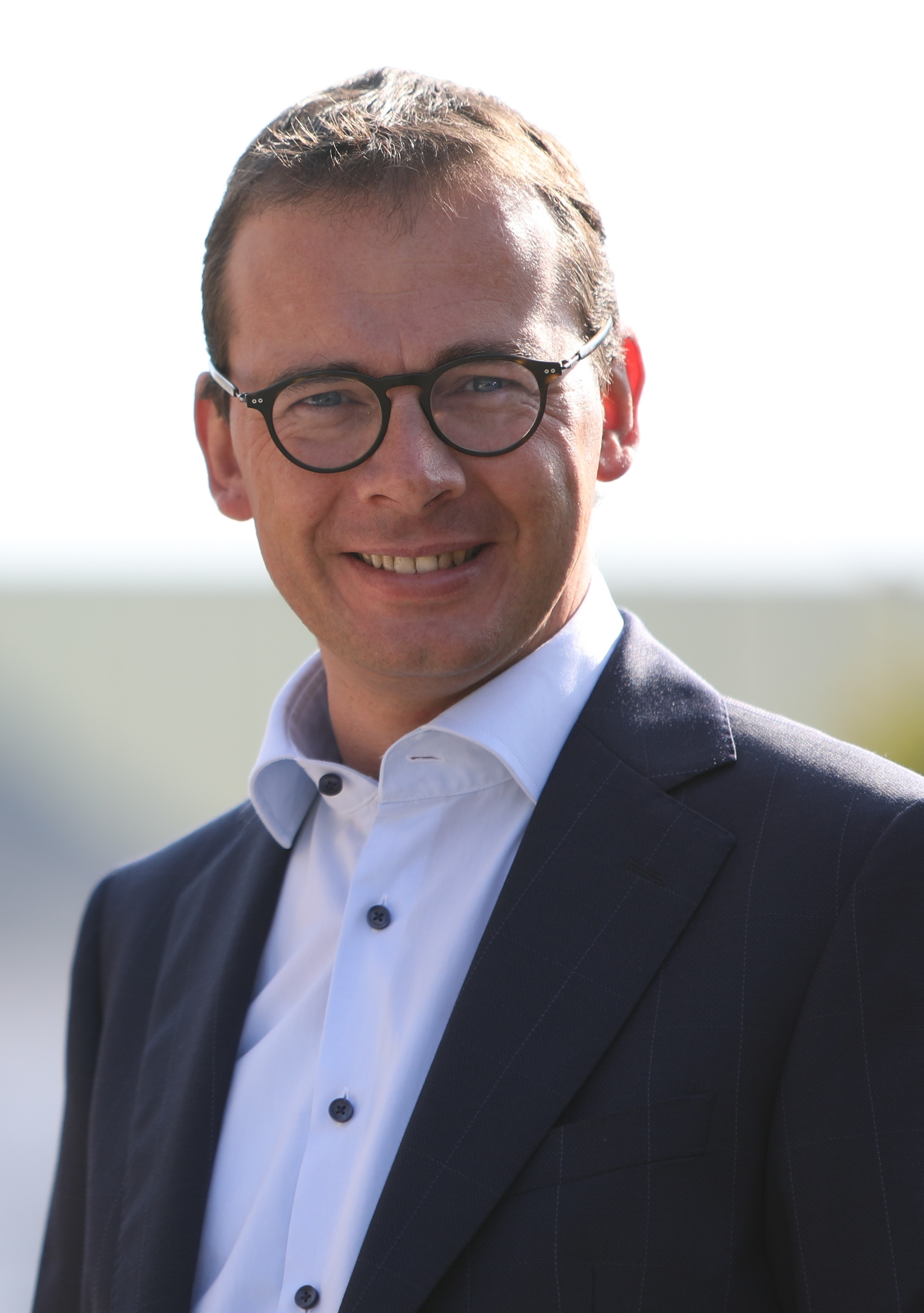 Wouter Beke in 2018